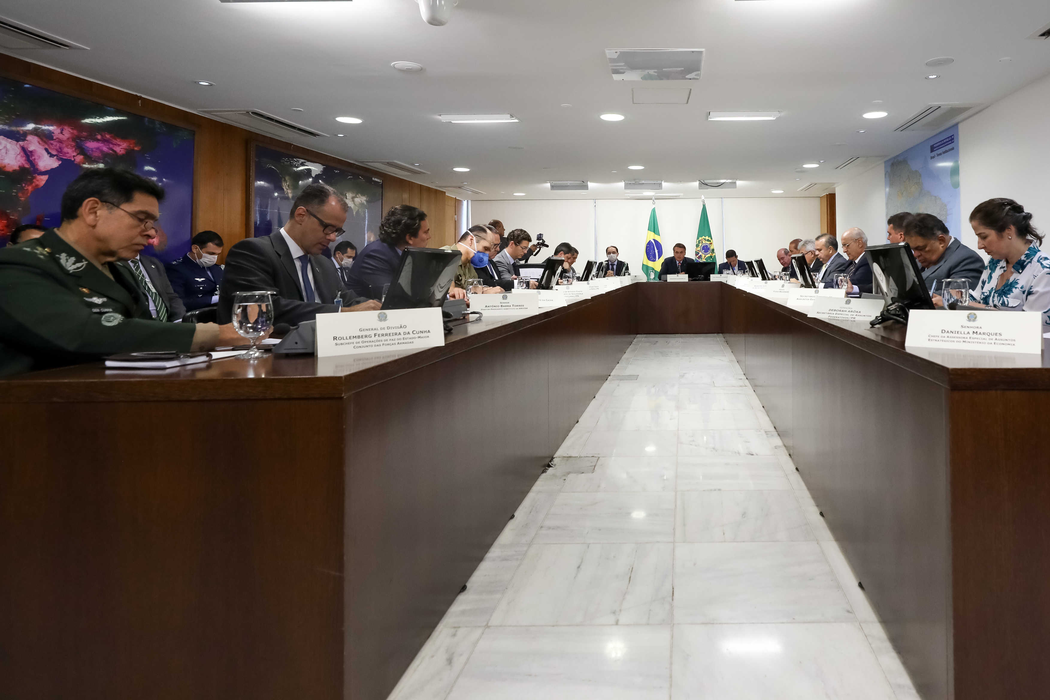 (Brasília - DF, 03/25/2020) President of the Republic Jair Bolsonaro, during a videoconference with Governors of the Southeast, deal with matters about the Covid-19 pandemic. Photo: Marcos Corrêa / PR